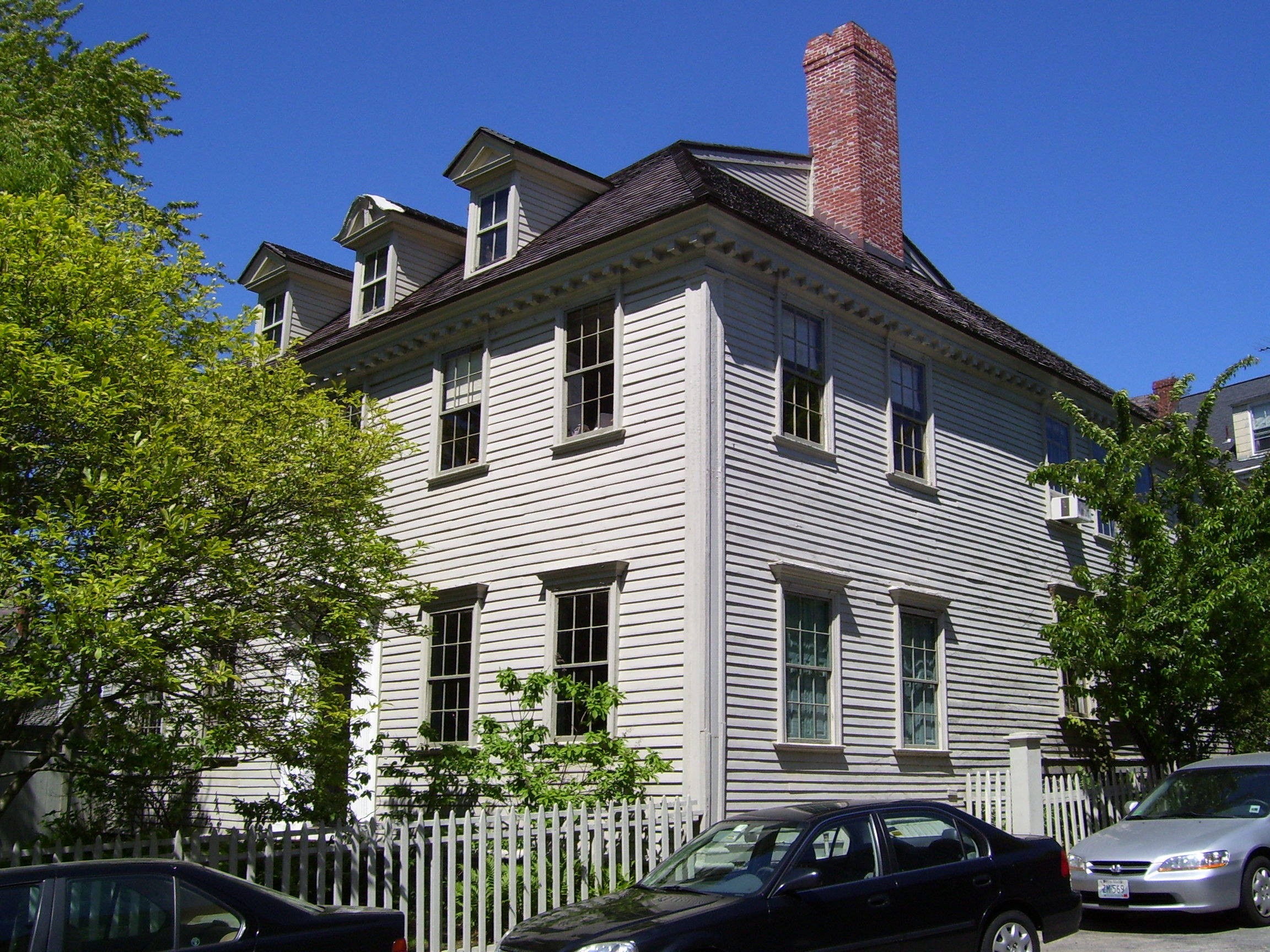 The Captain John Mawdsley House on Spring Street in Newport, Rhode Island. My 2008 photo.